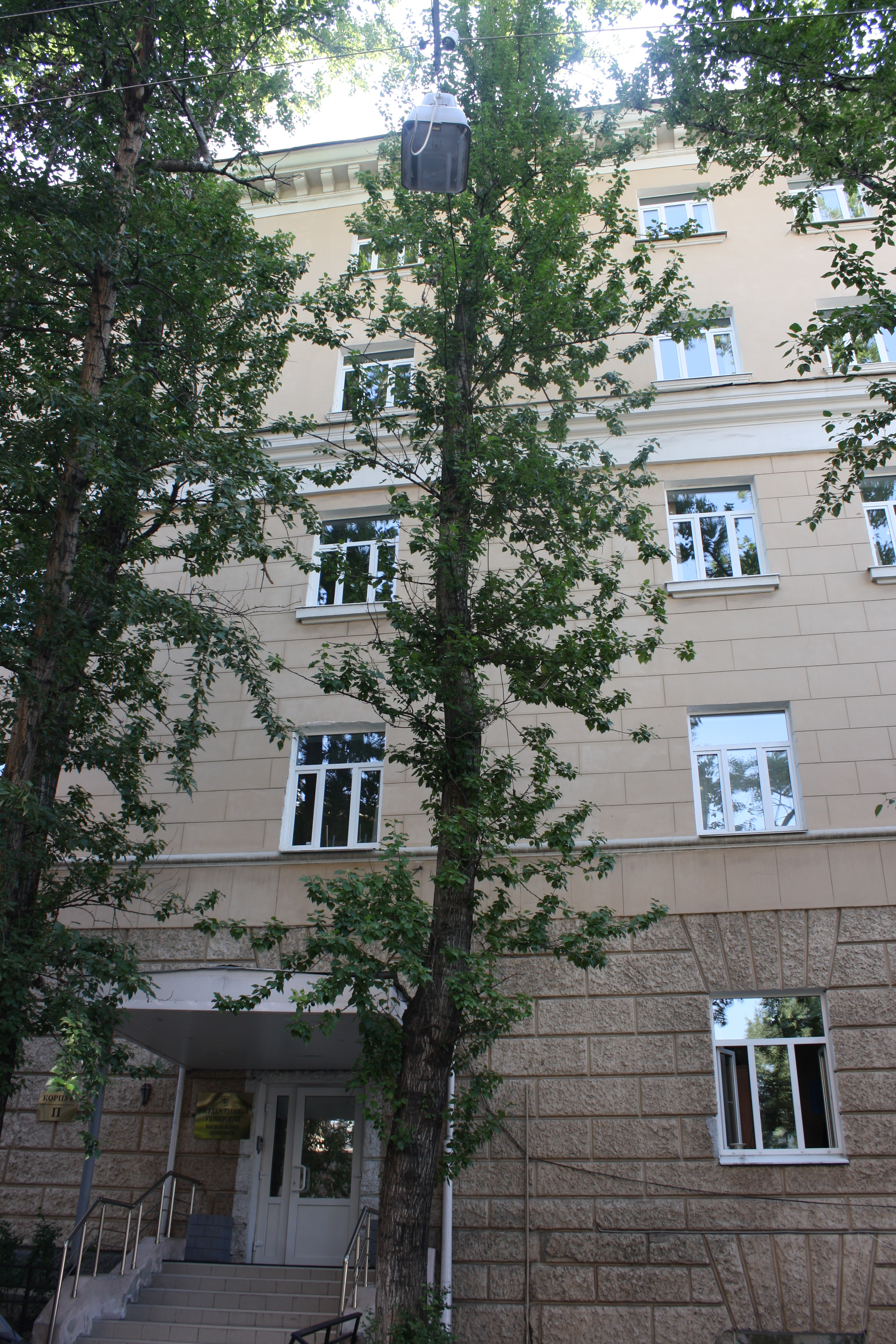 Hitrovsky Lane, Moscow